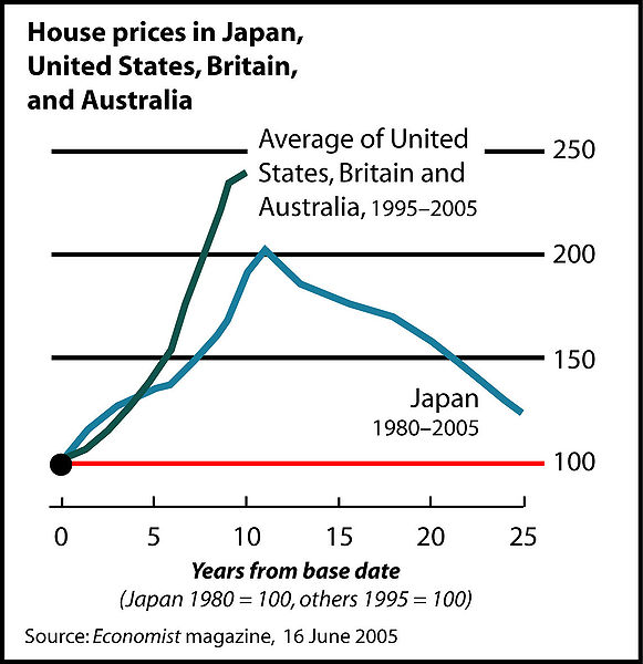 Plot of inflation-adjusted home price appreciation in Japan (1980–2005) and the United States, Britain, and Australia (1995–2005) based on data given in the Economist magazine article "In come the waves: The worldwide rise in house prices is the biggest bubble in history. Prepare for the economic pain when it pops", June 16, 2005. Also note the corrected date in the caption—the original Economist graph had incorrectly stated at the bottom that the base date for Japan was 1985, not 1980, as they state within the graph. I, the creator of this plot, based on data published in the Economist magazine article "In come the waves: The worldwide rise in house prices is the biggest bubble in history. Prepare for the economic pain when it pops", June 16, 2005, release it to the public domain. Frothy 20:27, 29 June 2007 (UTC) NOTE: The average for the US, Britain, and Australia line ends after 10 years, and hence the graph accurately represents a 1:1 correlation despite the two different ranges. Japan Range: 2005 - 1980 = 25 years US/Britain/Australia Average Range: 2005 - 1995 = 10 years